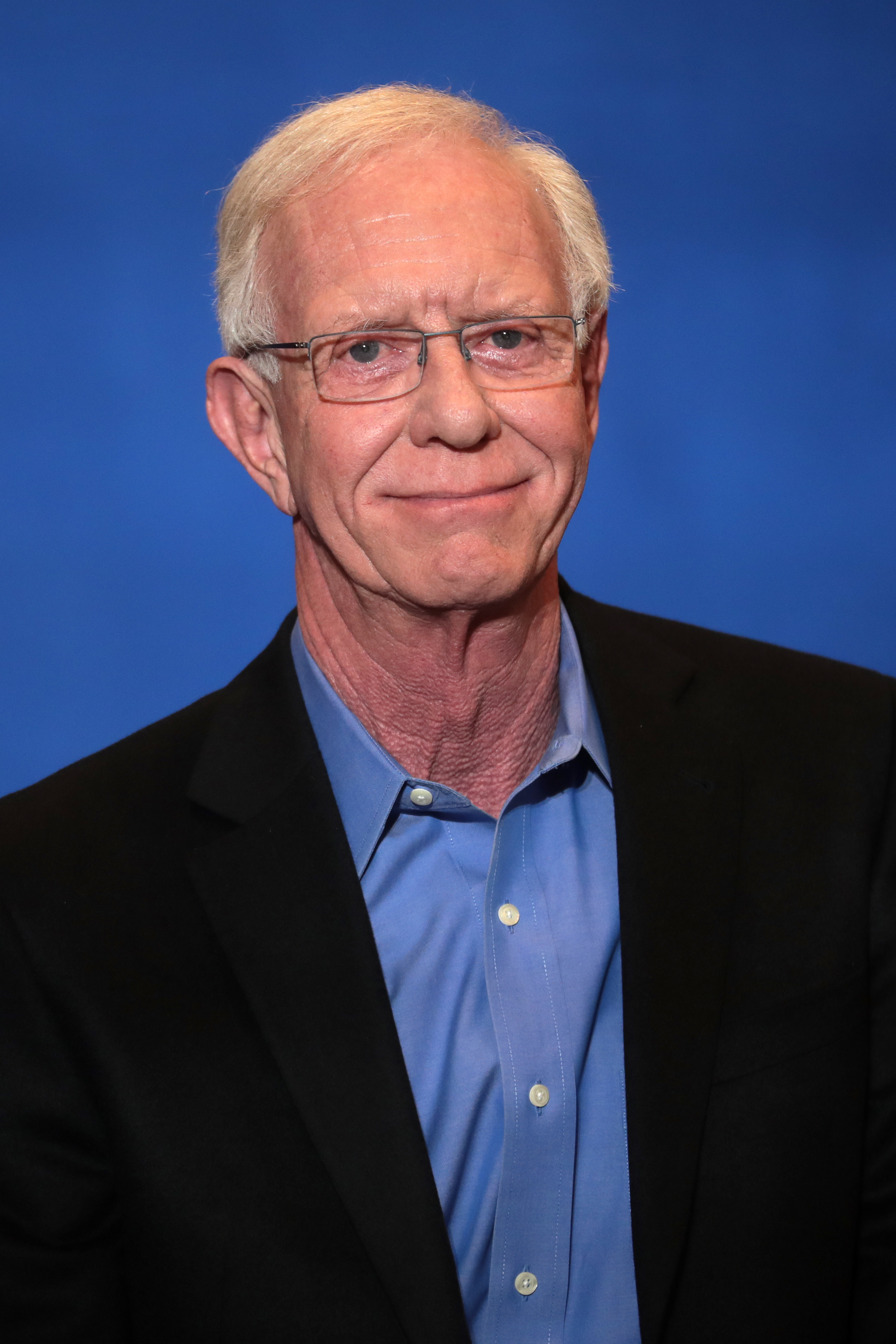 Chesley Sullenberger speaking at an event in Henderson, Nevada.